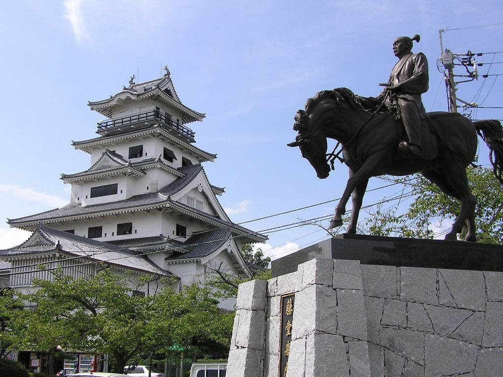 Source: self, OhMyDeer Photographed by: OhMyDeer Tōdō Takatora (statue) and the castle of Imabari in his back